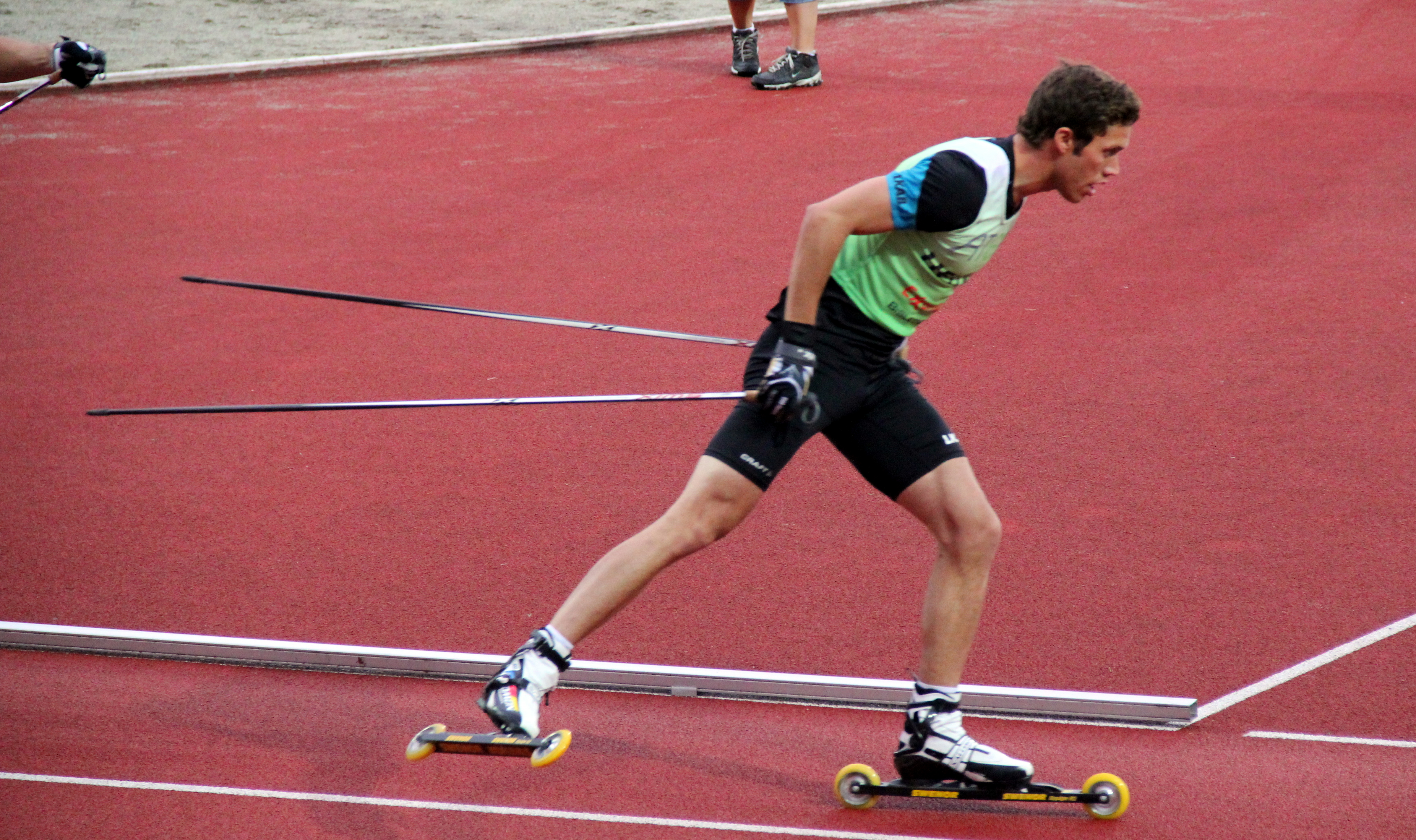 Marcus Hellner at the ATEA cross country mile at the 2011 Bislett Games